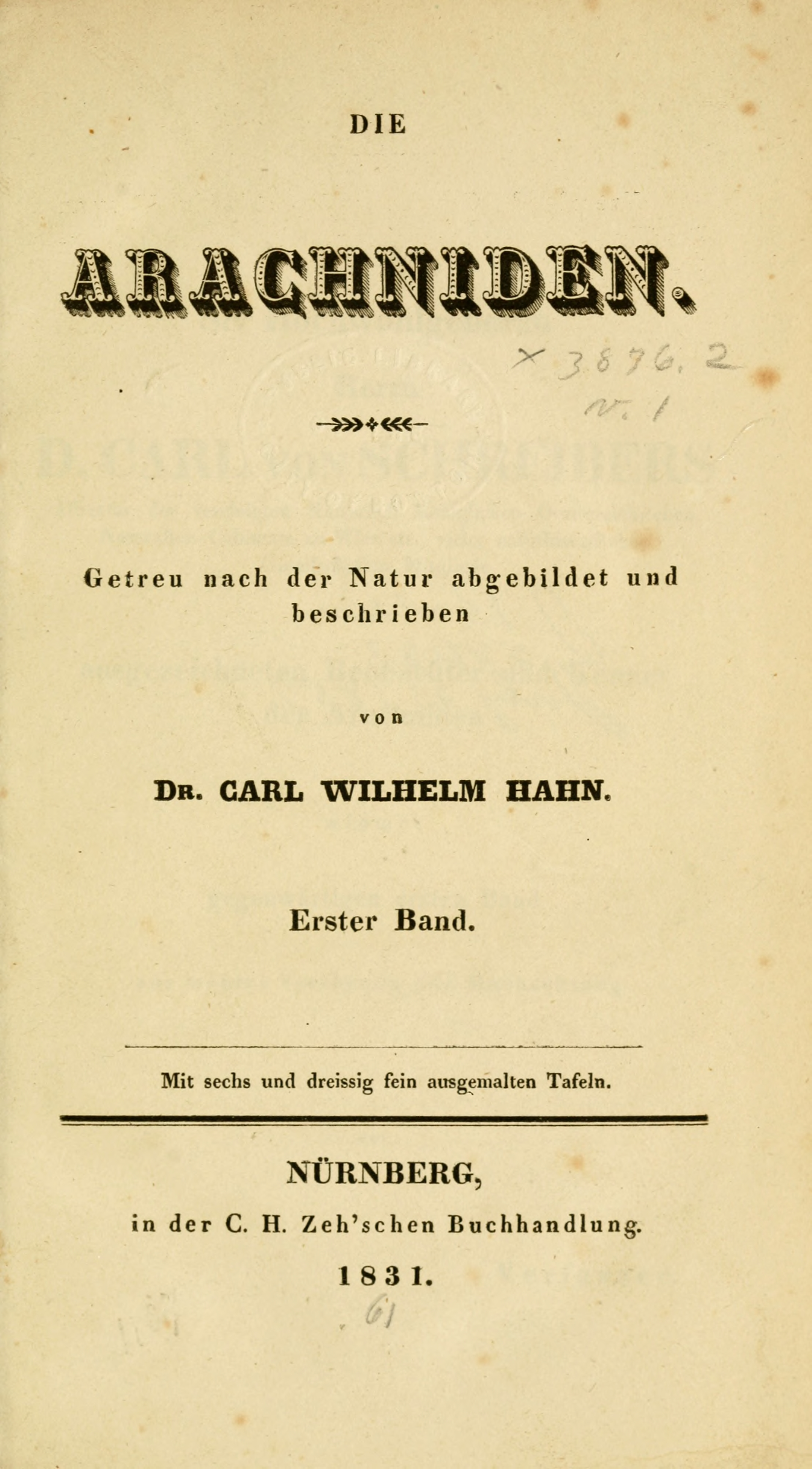 Carl Wilhelm Hahn: Die Arachniden. Erster Band. C. H. Zeh´sche Buchhandlung, Nürnberg 1831-1833, title